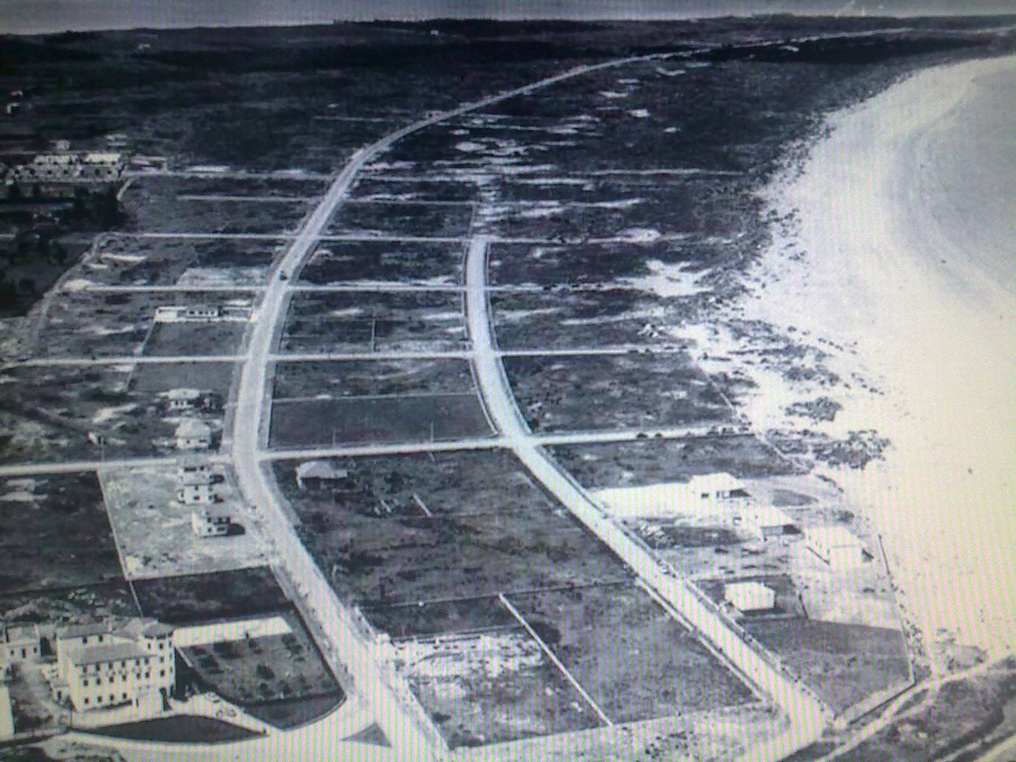 la expansión de Laredo